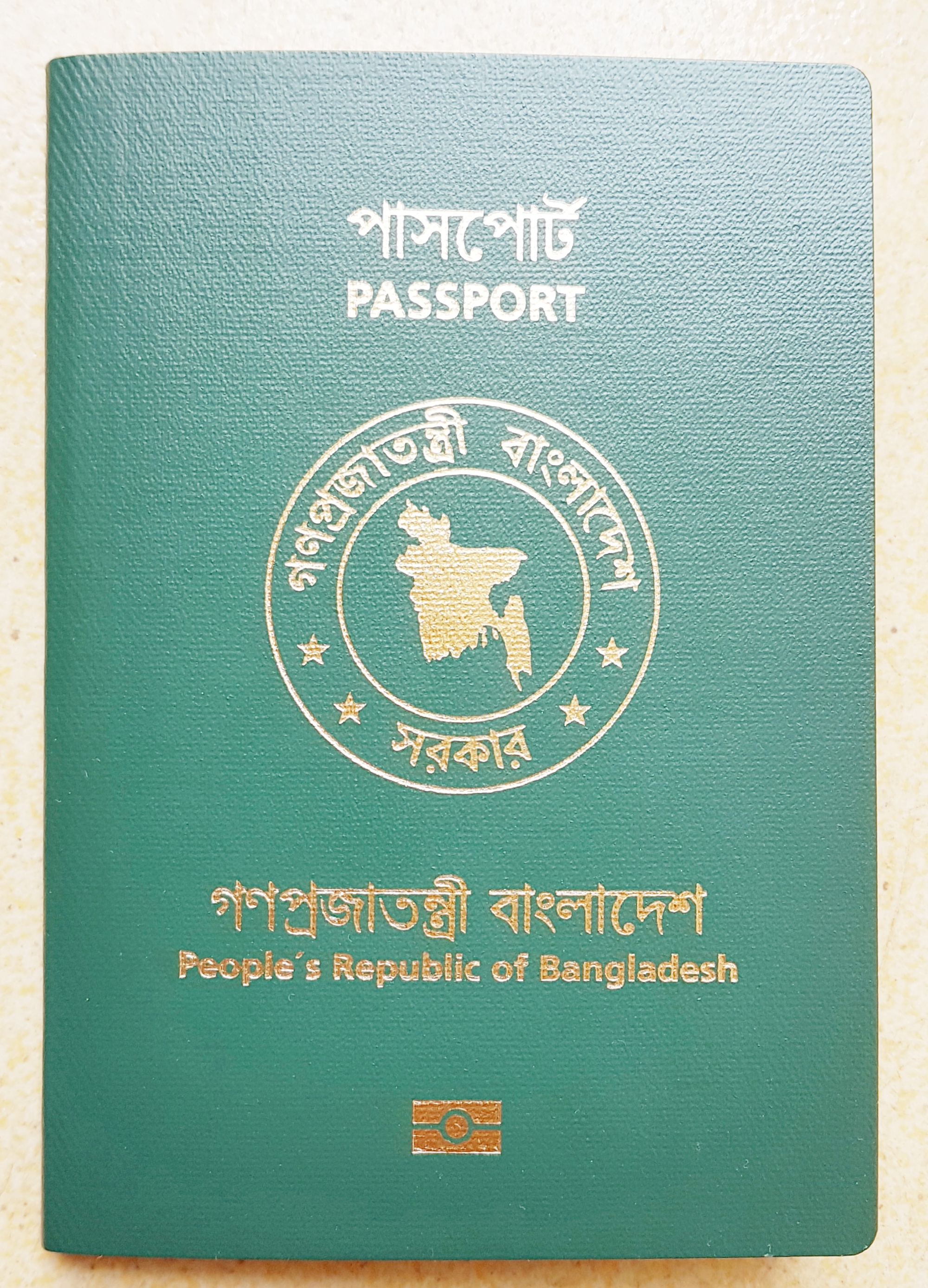 E Passport issued by Bangladesh Government